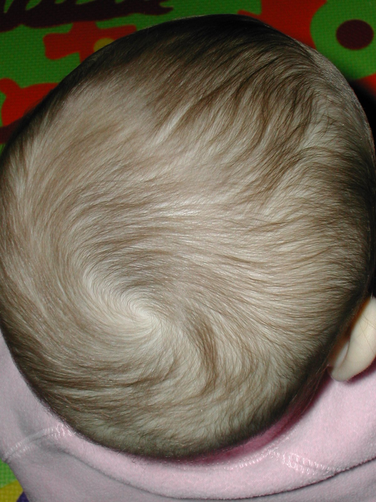 Hairy head of a one year old girl.